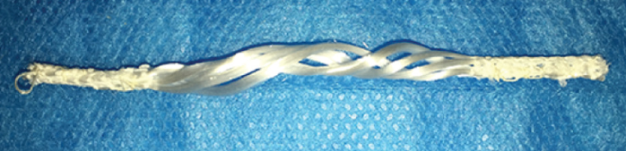 LARS artificial ligament used for ACL reconstruction surgery